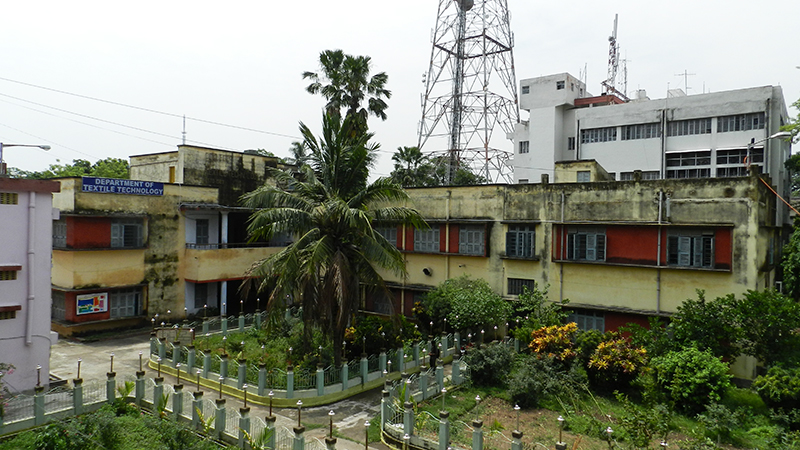 GCETTB ALBUM